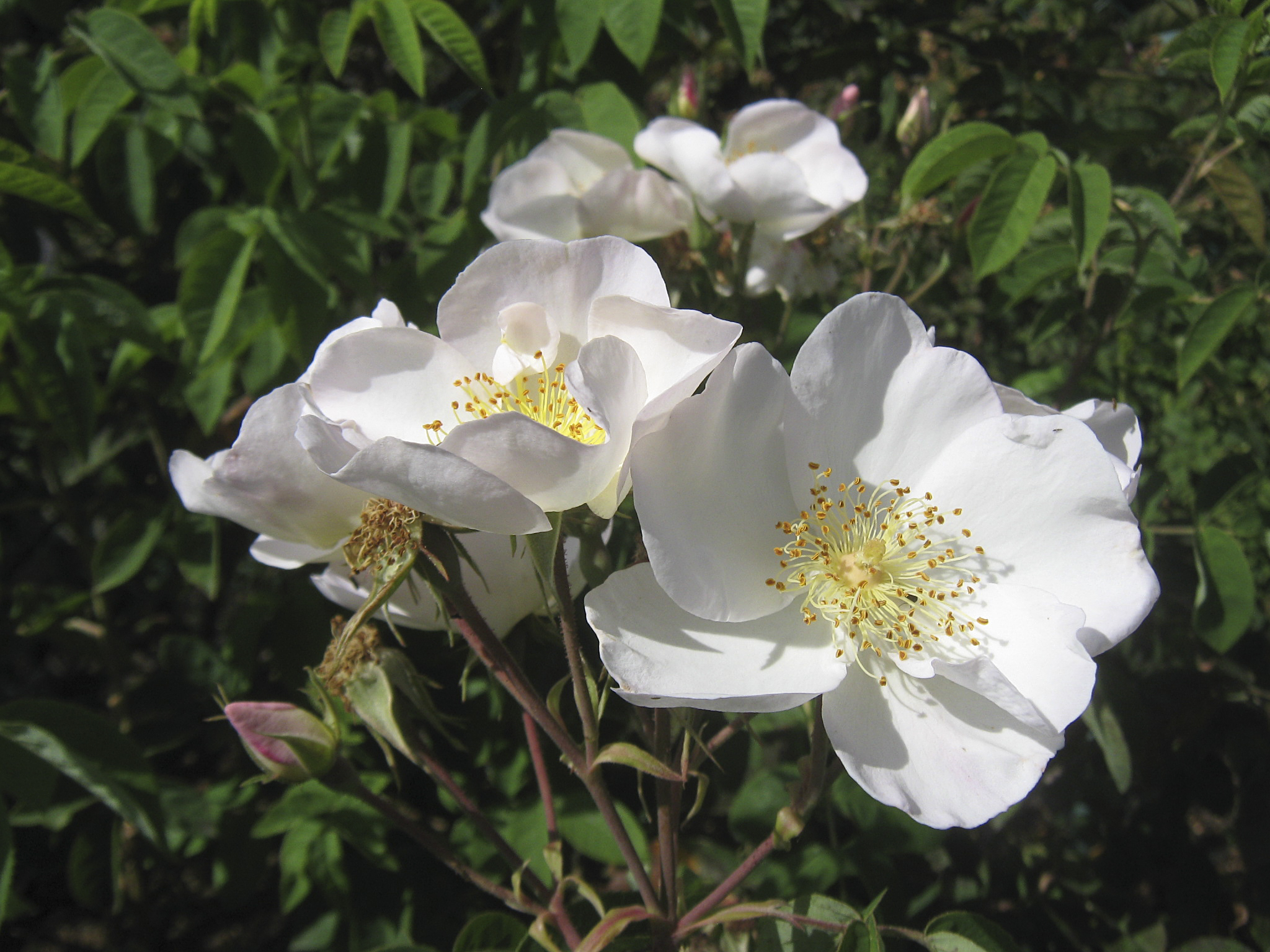 Rose 'Nevada', Hybrid Spinosissima by Pedro Dot 1927; photographed at the Victoria state Rose Garden, Werribee Park, Victoria